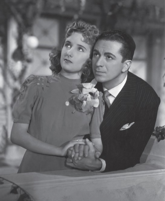 Film still of Los martes, orquídeas by Francisco Mugica, featuring Mirtha Legrand and Juan Carlos Thorry.